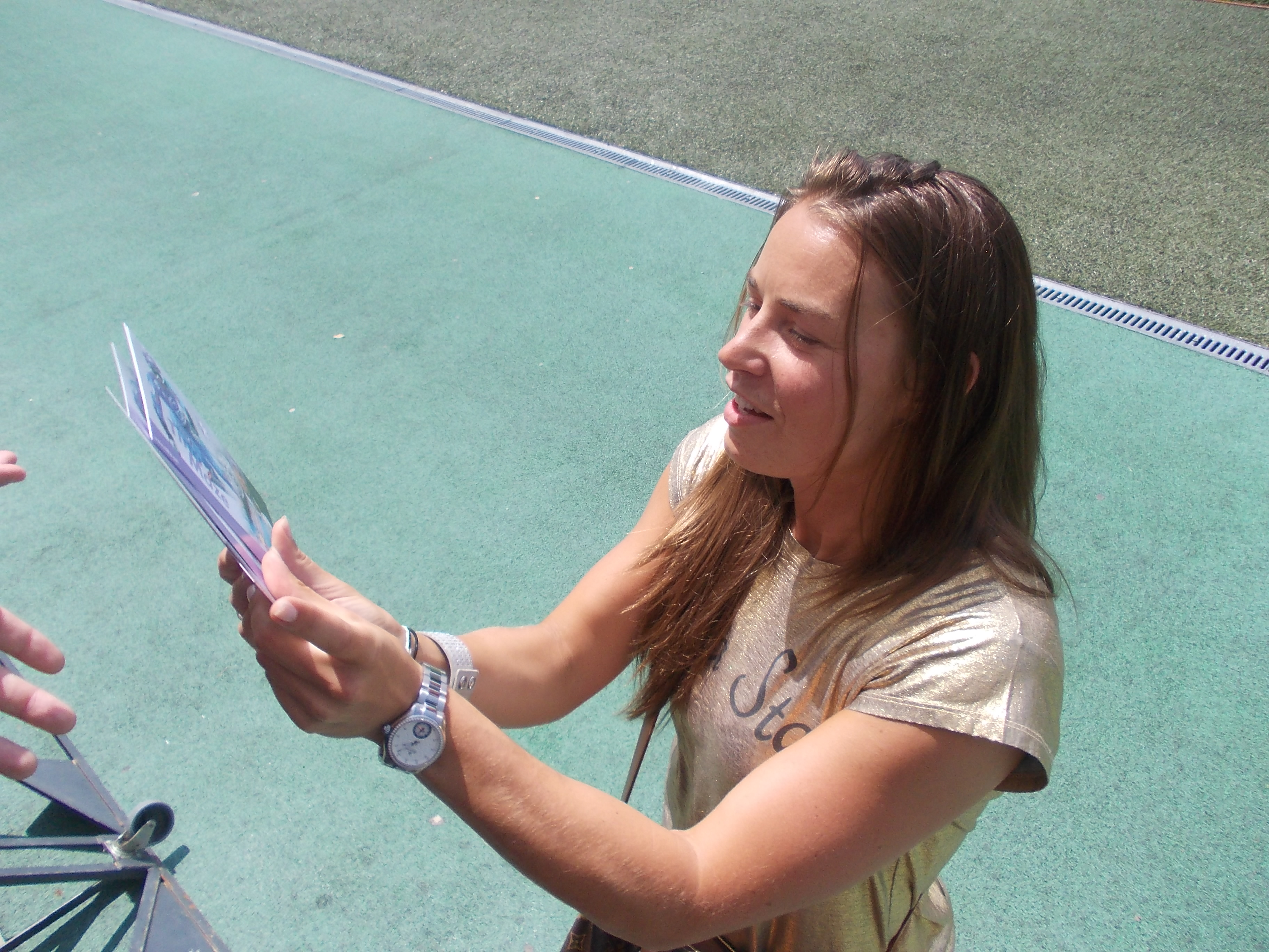 Tina Maze, Zborovski bum 2015